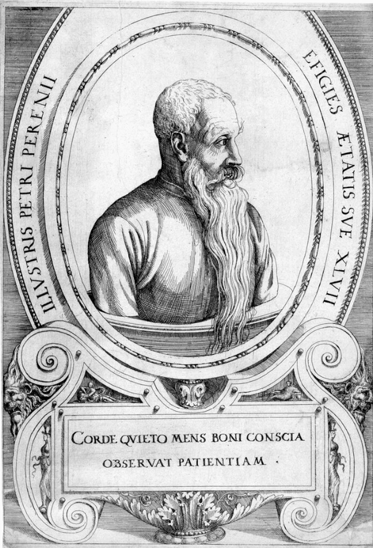 Péter Perényi, voivod of Transylvania